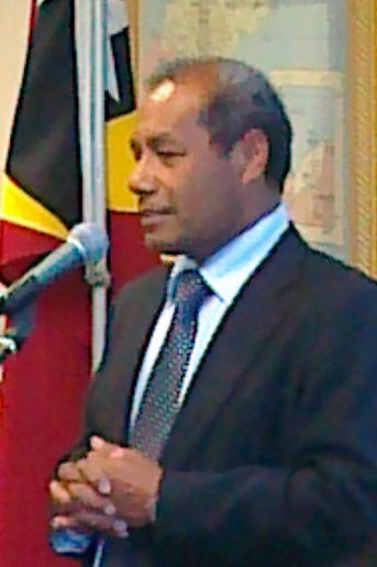 Ambassador Abel Guterres, in the Embassy of East Timor, in Canberra, Australia.